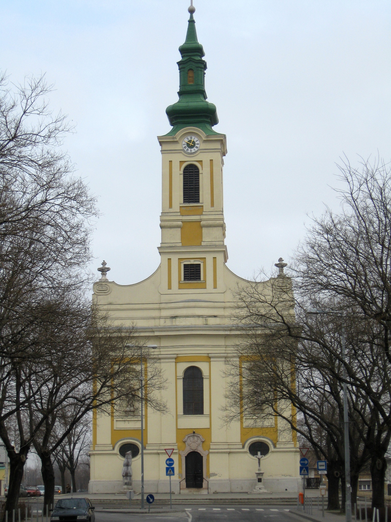 "Nagyboldogasszony" Catholic church - Budapest, XXIII. distr., Soroksár, Hősök tere